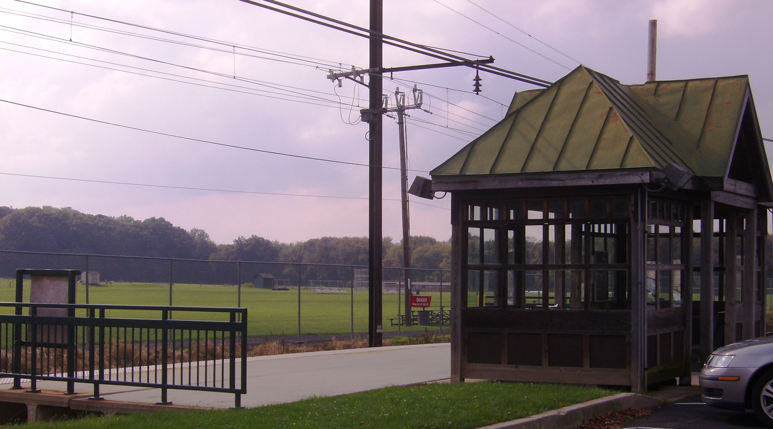 Delaware Valley College station